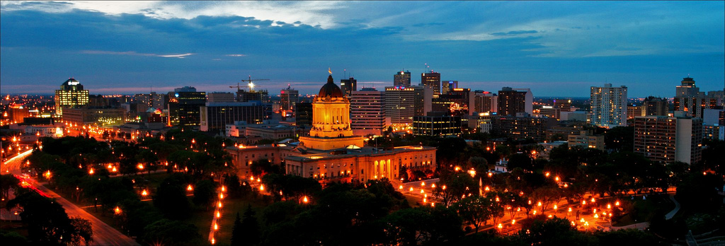 Winnipeg Skyline